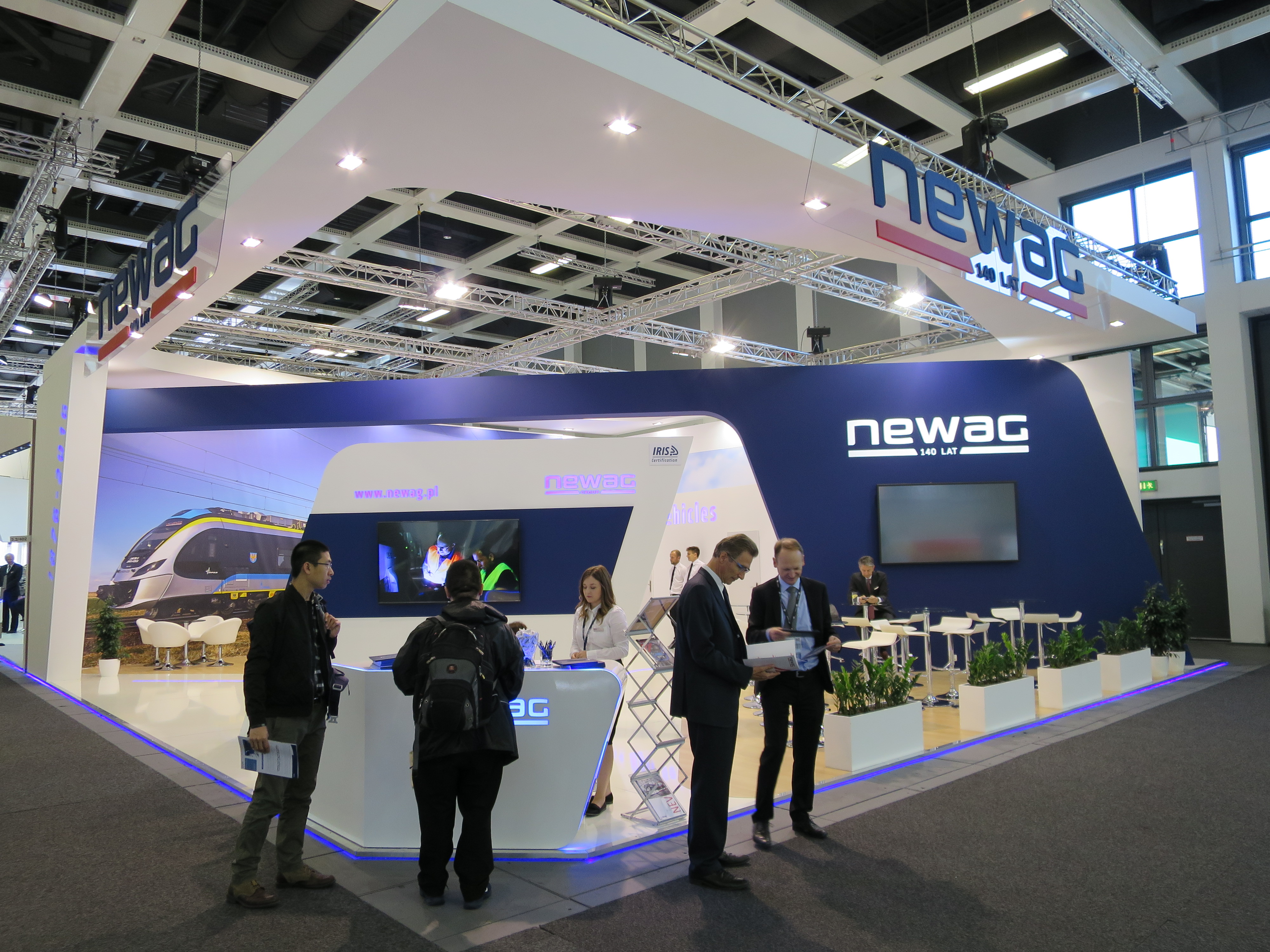 InnoTrans 2016 - Stoisko NEWAG S.A. The making of this document was supported by Wikimedia Polska Association, within Wikigrant no. WG 2016-35.